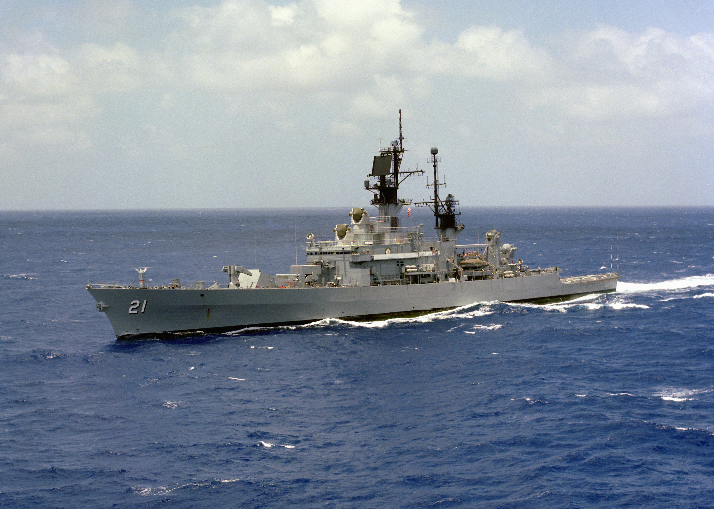 The U.S. Navy guided missile cruiser USS Gridley (CG-21) underway in the Pacific Ocean en route to Hawaii (USA) on 12 May 1981.